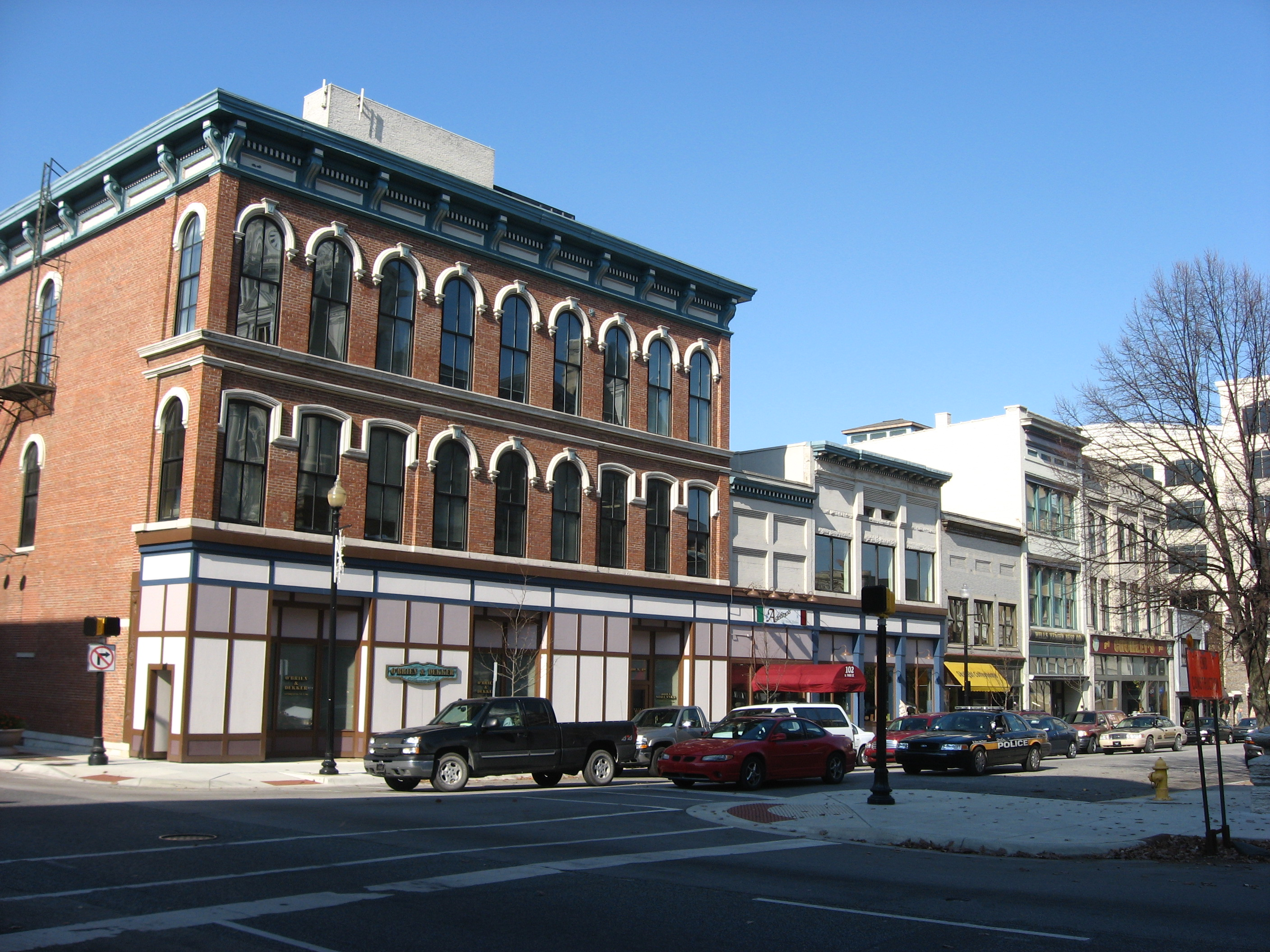 Buildings on the western side of Third Street on Courthouse Square in downtown Lafayette, Indiana, United States. Courthouse Square is part of the Downtown Lafayette Historic District, a historic district that is listed on the National Register of Historic Places.